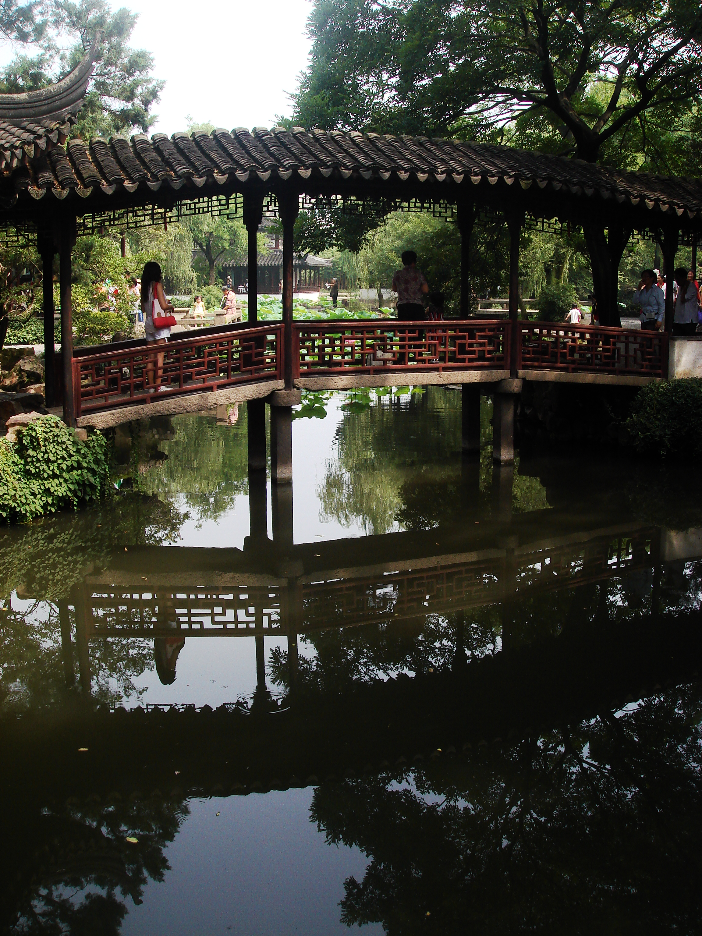 An ancient Covered bridge named Xiao Fei Hong in Humble Administrator's Garden, Suzhou, China.